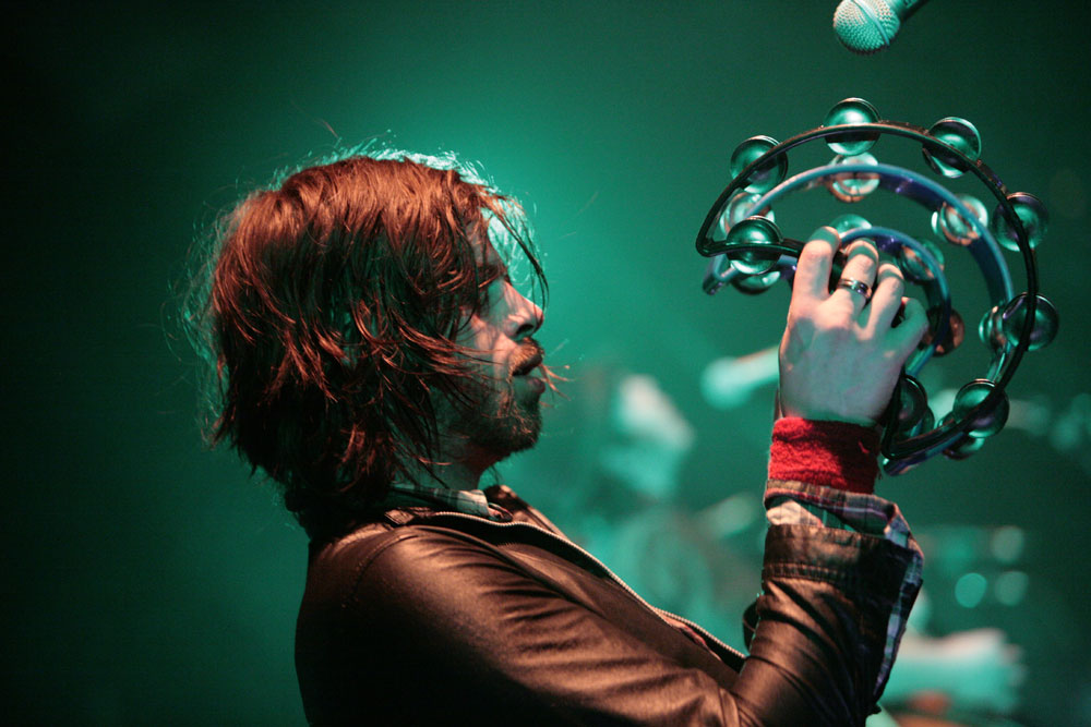 Charly Coombes performs with Supergrass at the Astoria, London